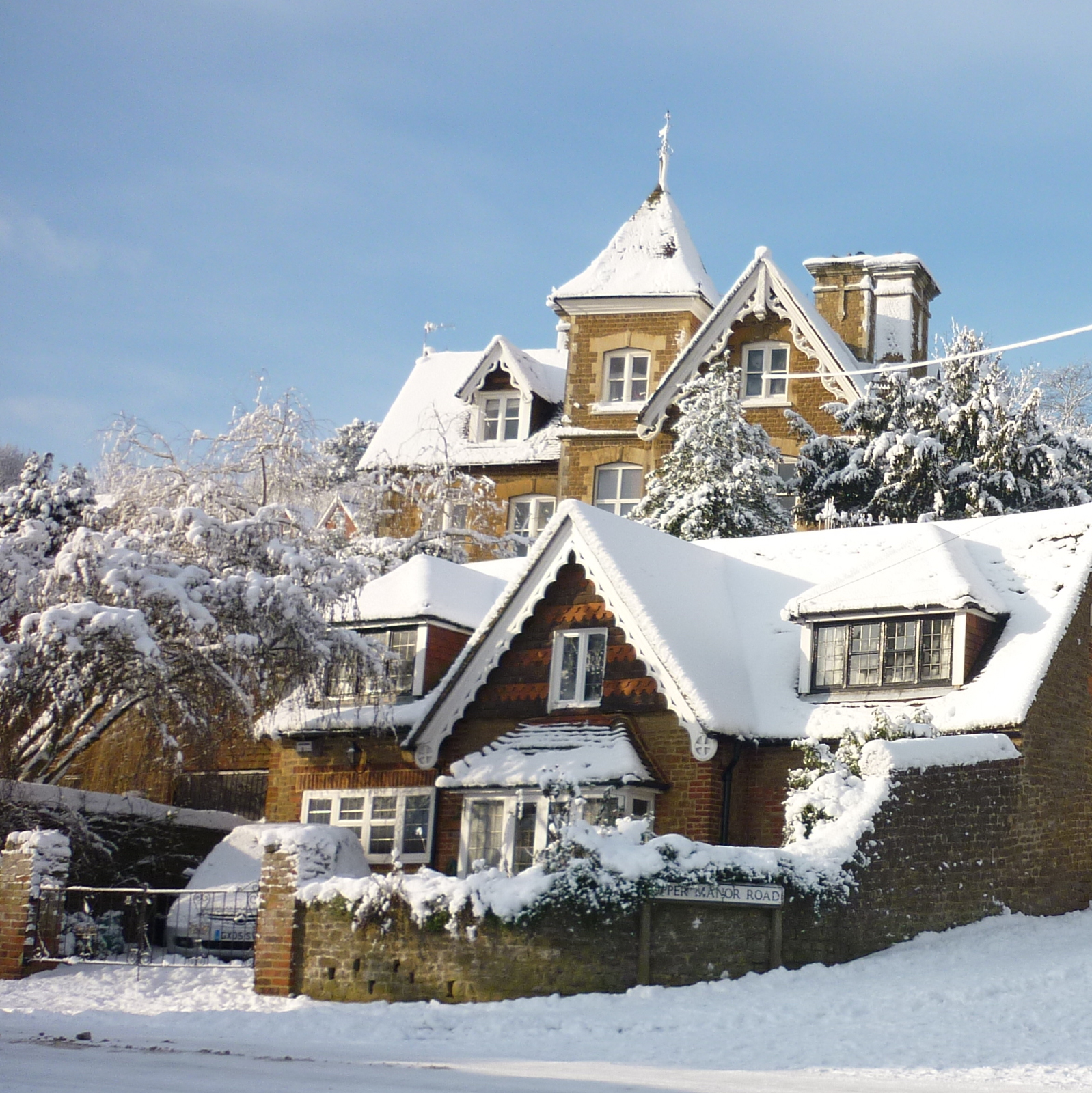 Nightingale Road Crossroads, pictured in the Winter in 2010.